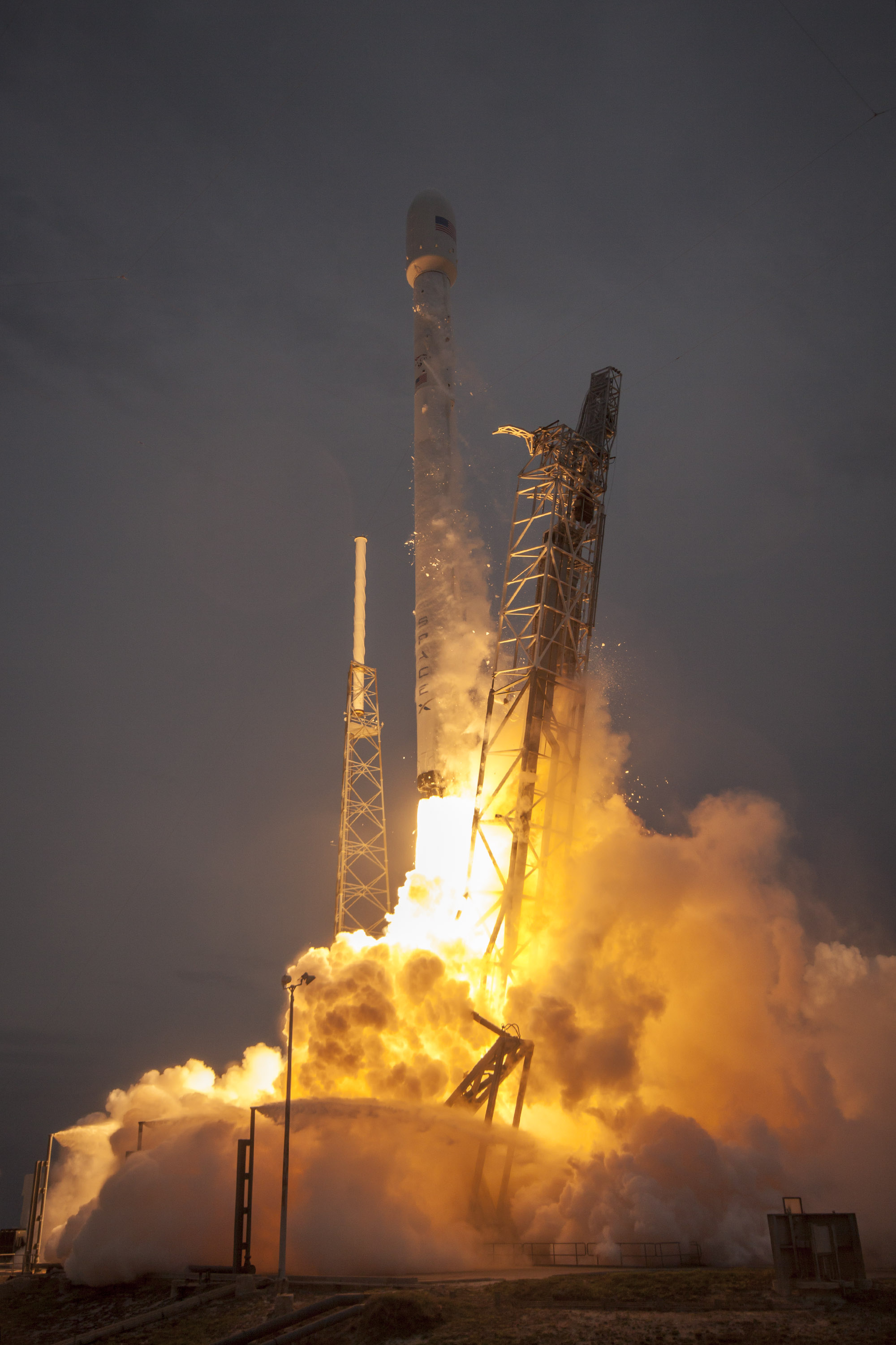 SpaceX's Falcon 9 rocket delivered Thales Alenia Space's TurkmenÄlem52E/MonacoSat satellite to a geosynchronous transfer orbit on April 27, 2015 from Space Launch Complex 40 at Cape Canaveral Air Force Station, Florida. The satellite was deployed approximately 32 minutes after liftoff.